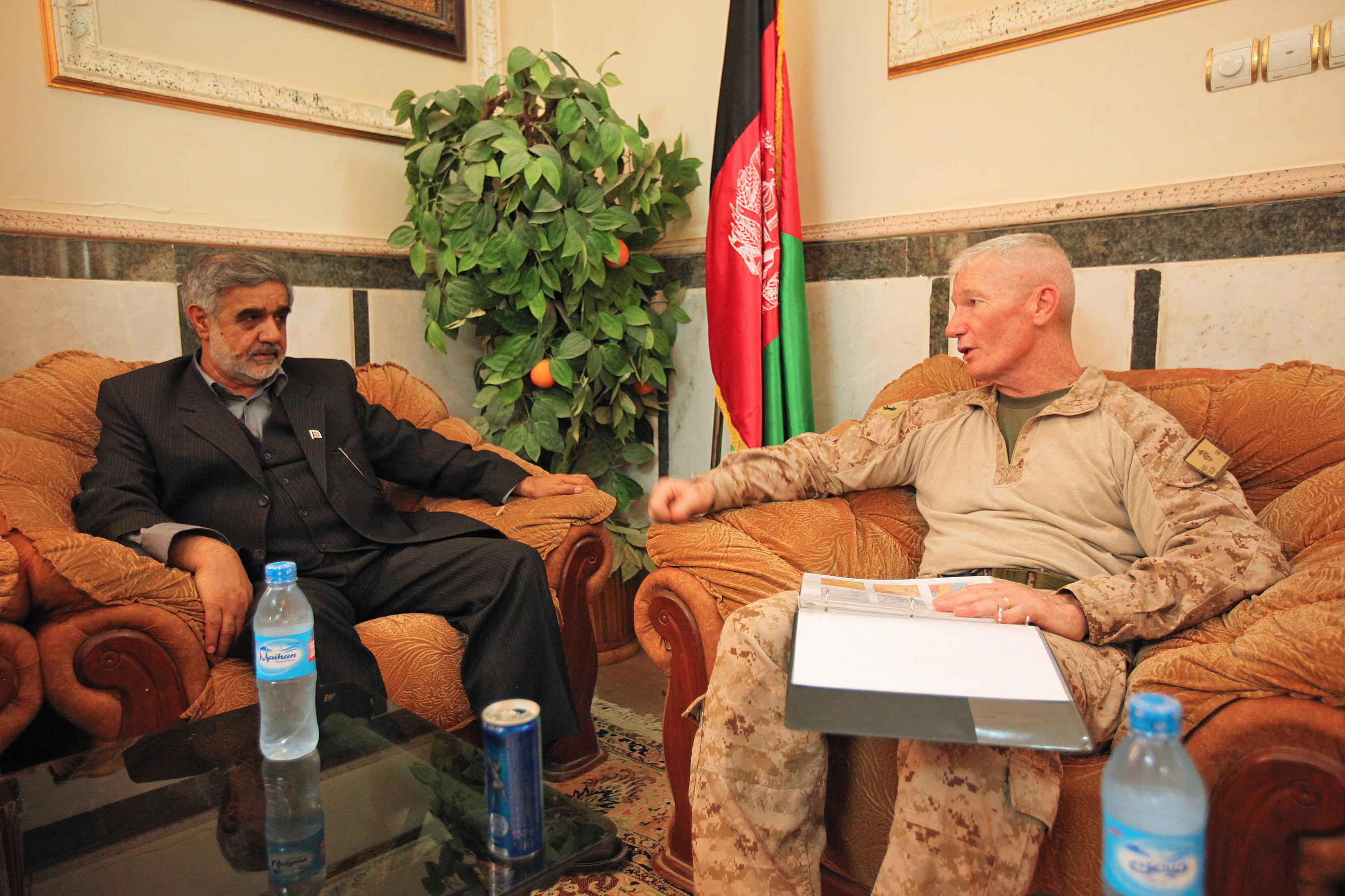 Maj. Gen. John A. Toolan (right), commanding general of Regional Command Southwest, talks with the Nimroz provincial governor, Abdul Karim Brahawi, in his guest home in the city of Zaranj, June 4. Toolan met with the provincial governor to participate in the opening ceremony of the city’s new hospital emergency room. (Photo ID: 411680)